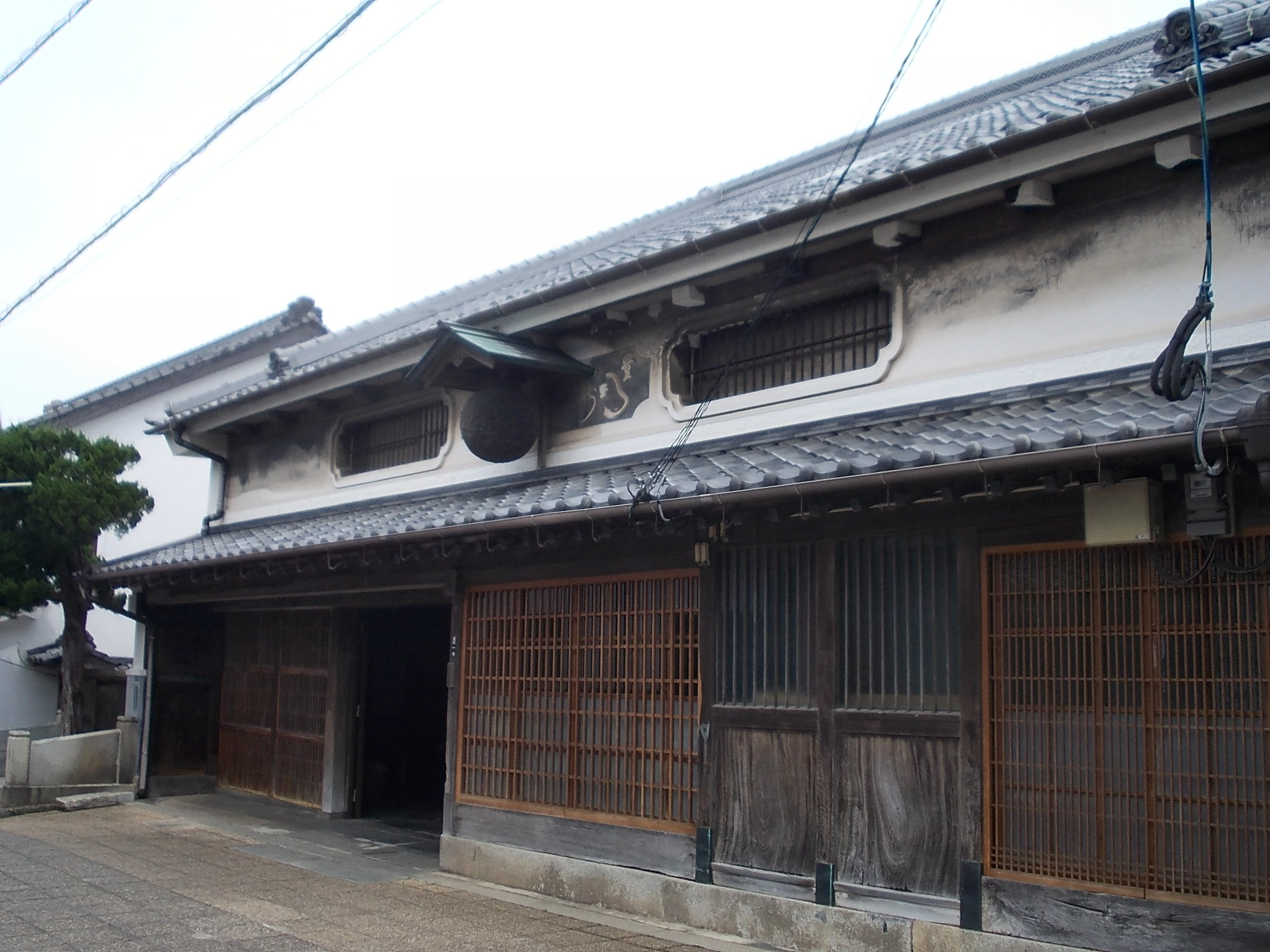 The Toyomura Sake Brewery company head office in Fukutsu, Fukuoka, Japan. Found in 1874, the company has been making local sake of Tsuyazaki and Japanese rice wine over 130 years old.